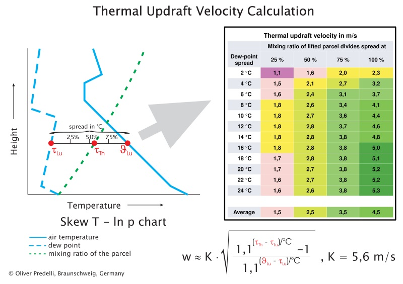 Calculation of thermal updraft velocity based on temperatures from Skew-T diagrams.